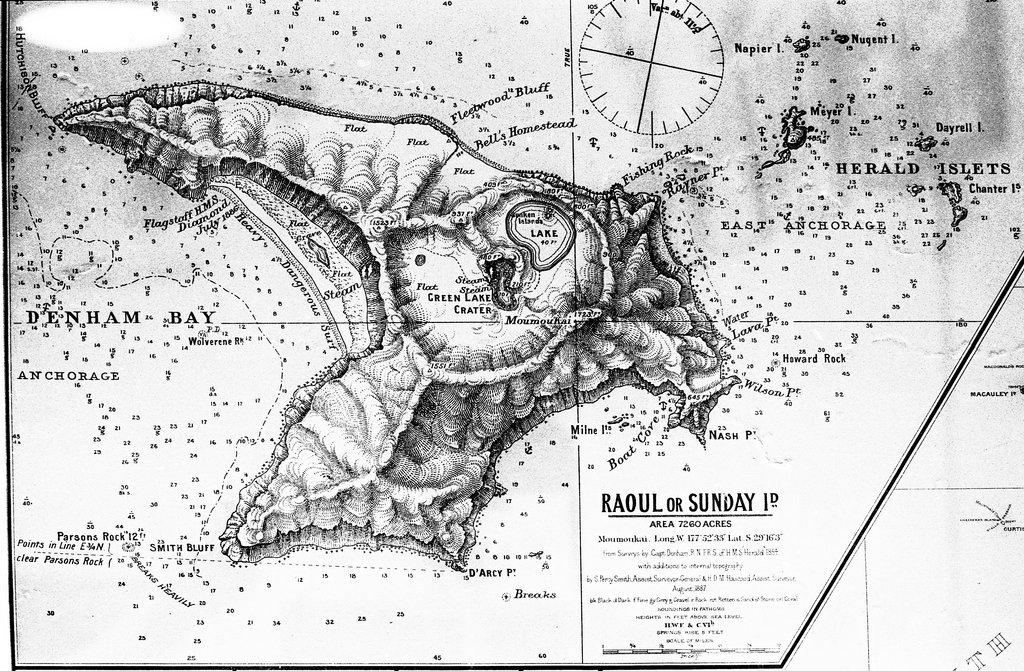 nautical chart of Raoul or Sunday Island, Kermadec Islands, New Zealand, Pacific Ocean